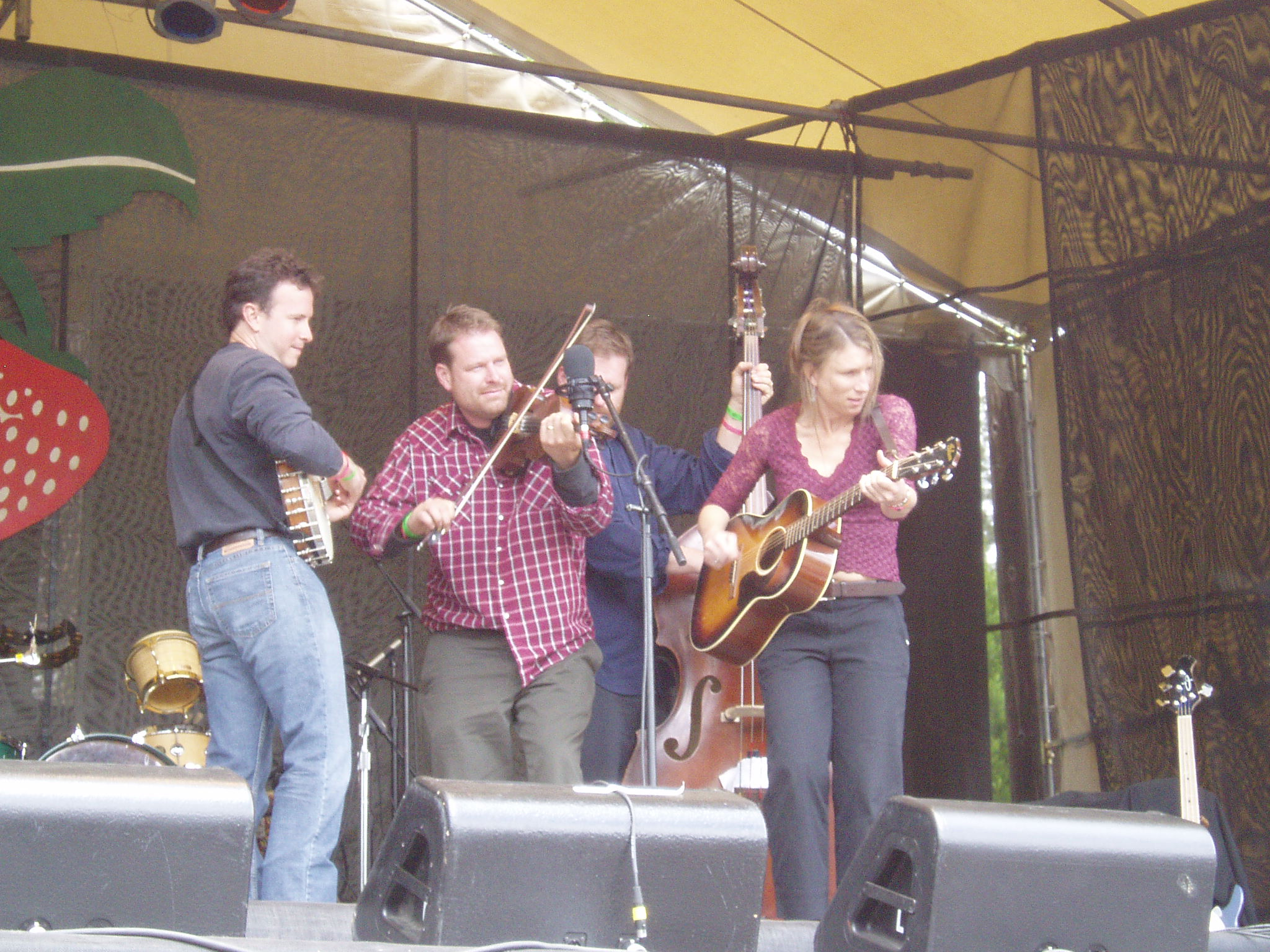 Martha Scanlan and her band play on stage at the 2006 Strawberry Spring Music Festival